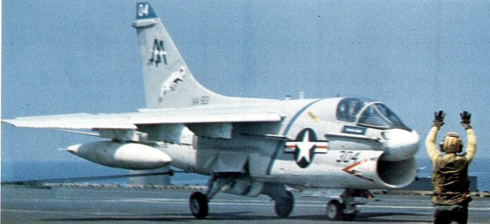 A U.S. Navy LTV A-7E Corsair II of Attack Squadron VA-83 "Rampagers" landing aboard the aircraft carrier USS Forrestal (CV-59). VA-83 was assigned to Carrier Air Wing 17 (CVW-17) aboard the Forrestal for a deployment to the Mediterranean Sea from 2 March to 15 September 1981.